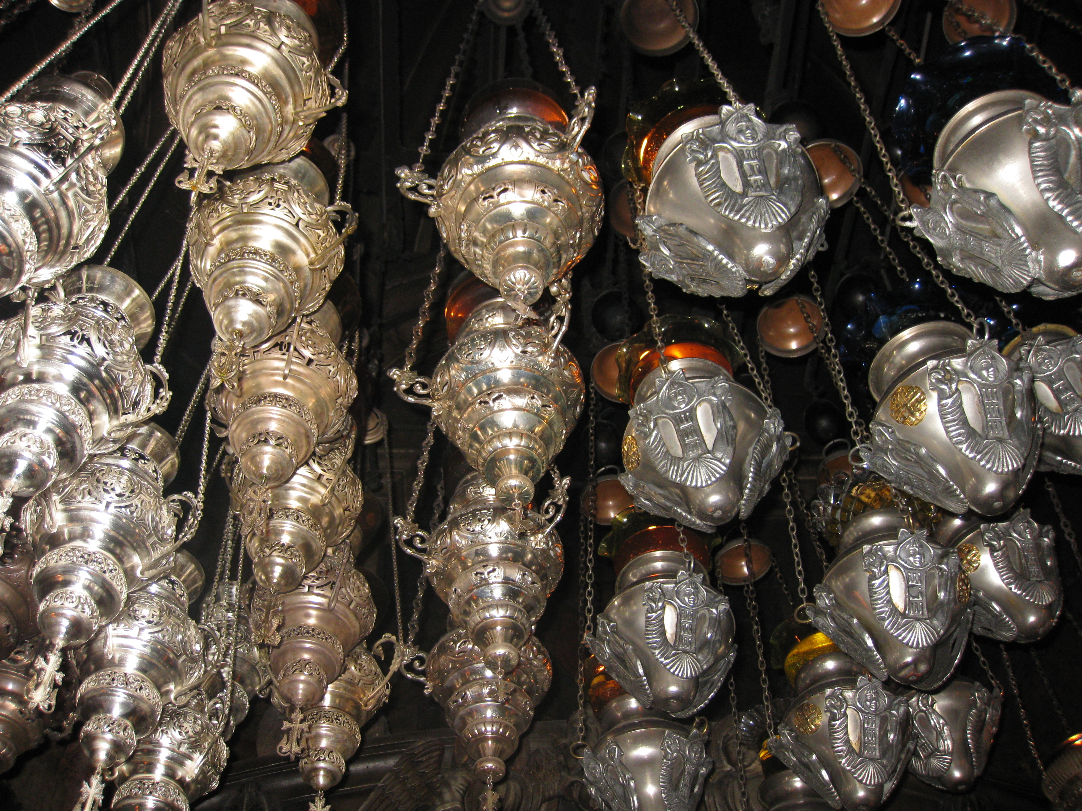 Holy Sepulchre - Tomb of Jesus